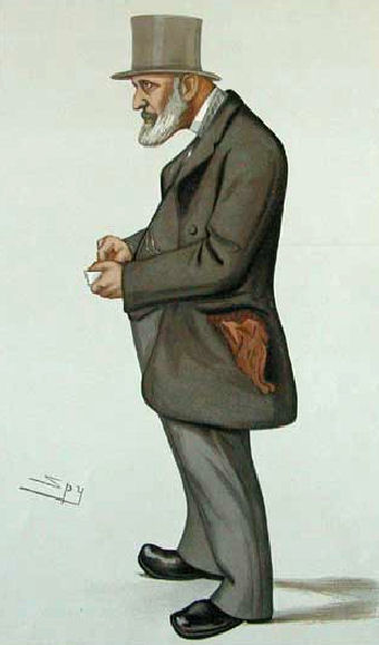 Caricature of James Edwin Thorold Rogers. Caption read "a professor".